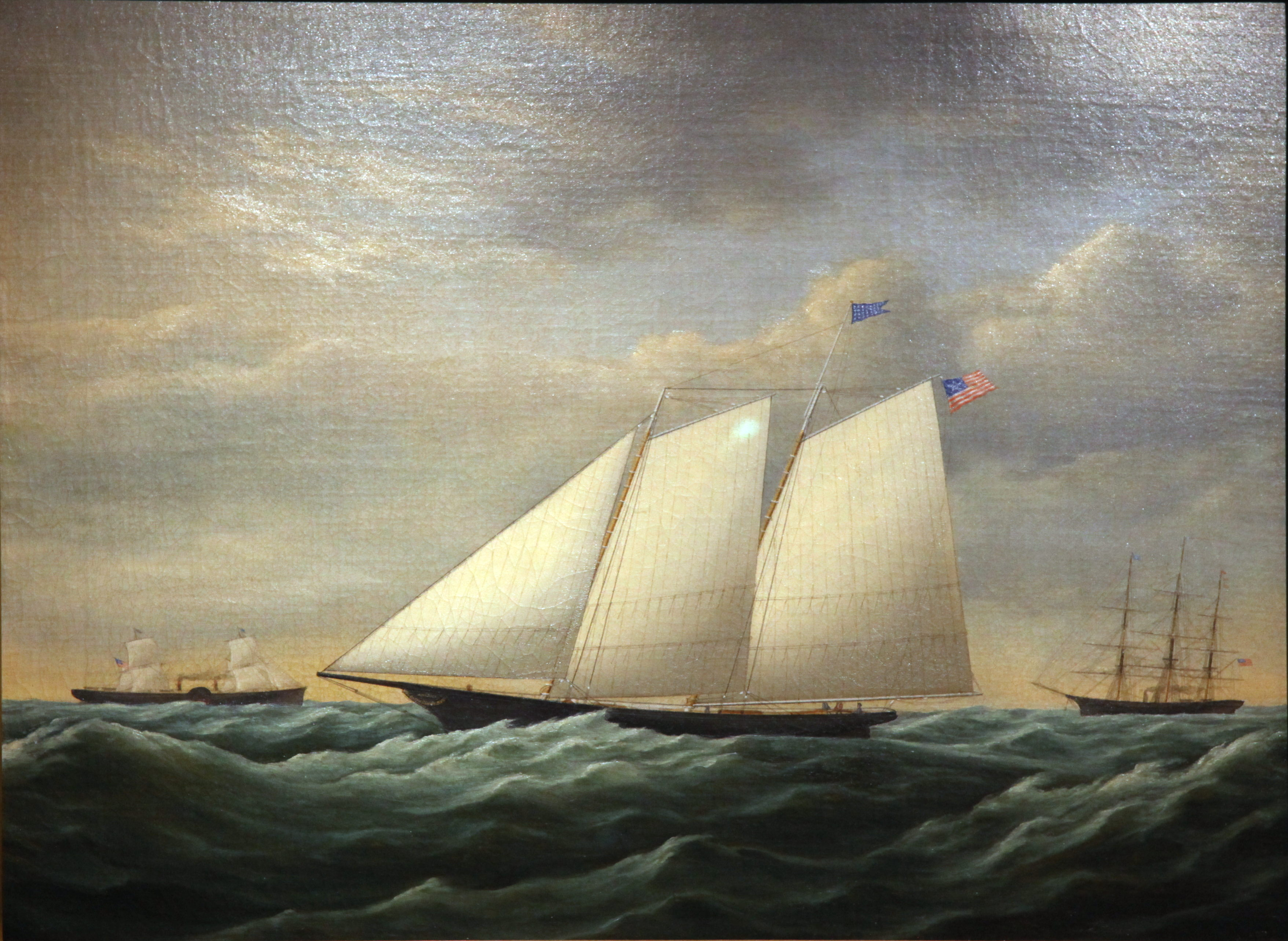 Yacht America, paiting by John Hansen (1825-1870). Also visible are SS Adriatic and USS Niagara. Painting commissioned by George Steers circa 1857. On loan from Dr. William I. Koch to the MIT Museum.